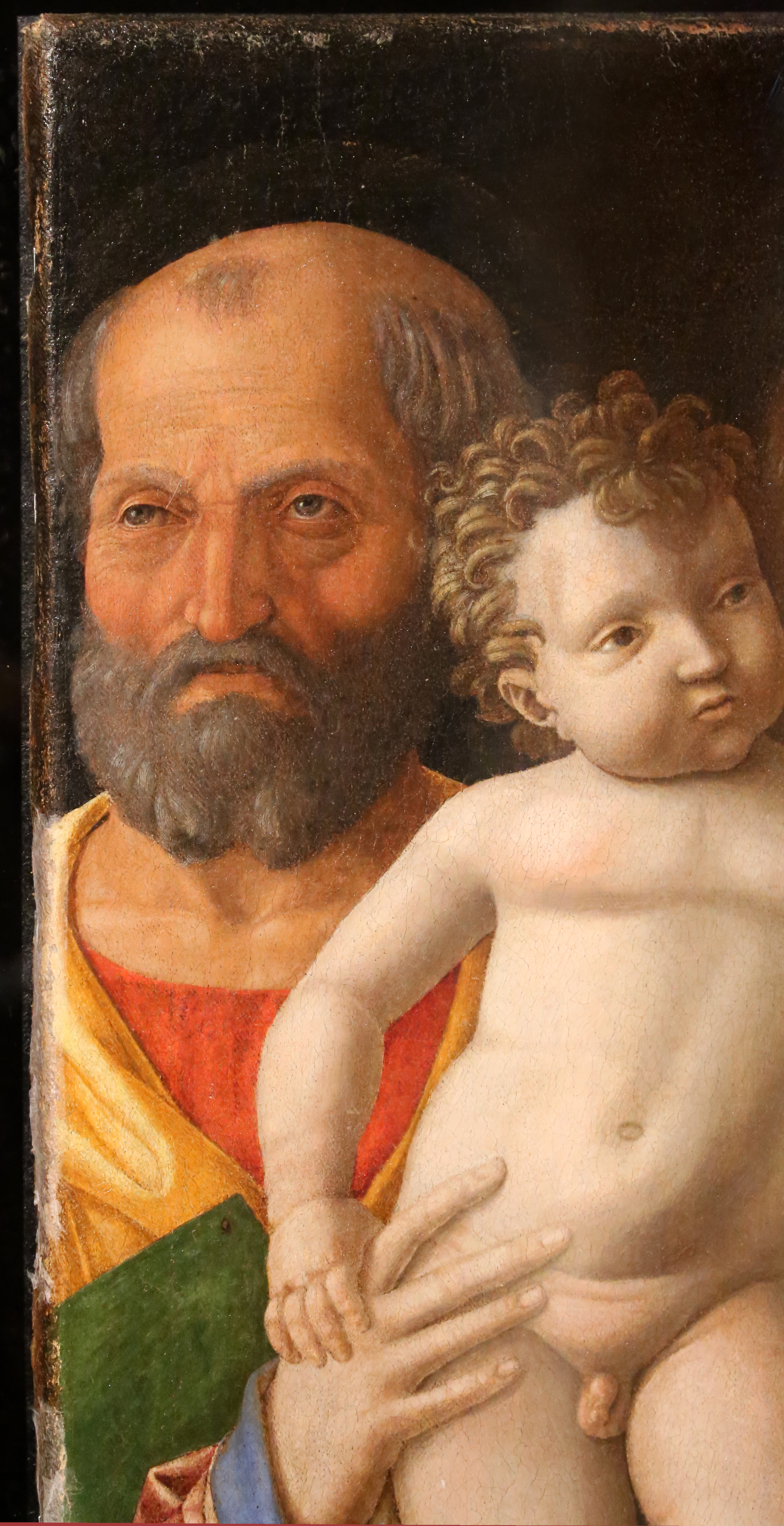 La Tutela Tricolore (2016 exhibition)